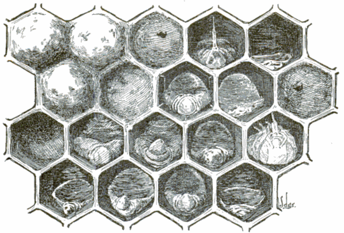 Drawing of a honeycomb infected with American foulbrood.